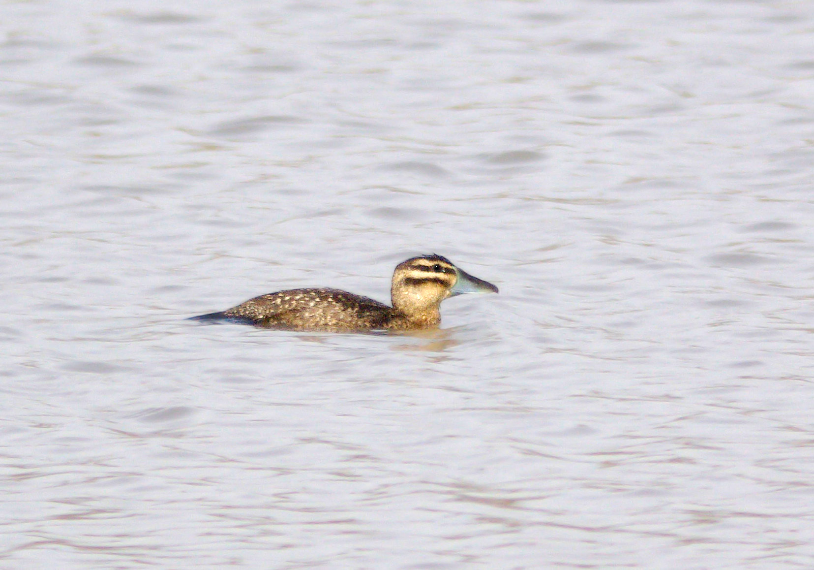 ABA AREA BIRDS: My Photo "Life List"